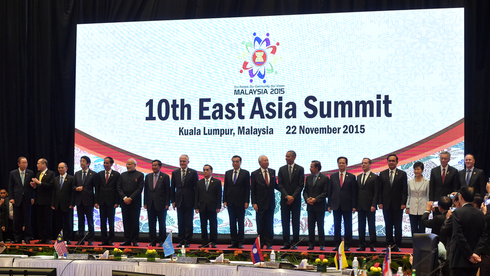 Photo session with the heads of the delegations to the 10th East Asia Summit in Kuala Lumpur. From left to right: UN Secretary-General Ban Ki-moon, Philippine President Benigno Aquino III, President of Myanmar Thein Sein, Japanese President Shinzo Abe, Indonesian President Joko Widodo, Indian Prime Minister Narendra Modi, Cambodian Prime Minister Hun Sen, Australian Prime Minister Malcolm Turnbull, Prime Minister of Laos Thongsing Thammavong, Premier of the State Council of the People's Republic of China Li Keqiang, Malaysian Prime Minister Najib Razak, U.S. President Barack Obama, Sultan of Brunei Hassanal Bolkiah, Vietnamese Prime Minister Ngueng Tan Dung, Russian Prime Minister Dmitry Medvedev, Thai Prime Minister Prayut Chan-o-cha, South Korean President Park Geun-hye, Singaporean Prime Minister Lee Hsien Loong, New Zealand Prime Minister John Key.